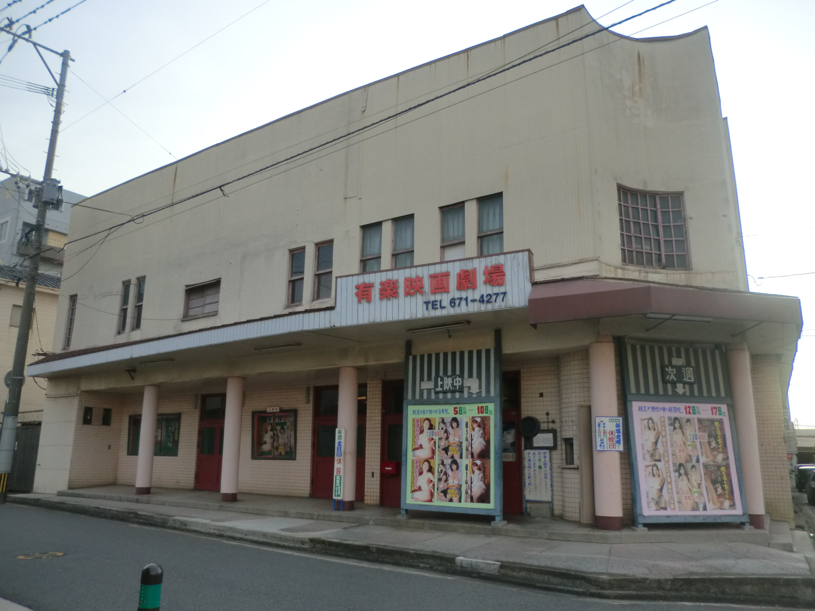 Yuraku Eiga Gekijo(Yuraku theater) at Kitakyushu,Fukuoka,Japan.Some movie is located at this old theater.